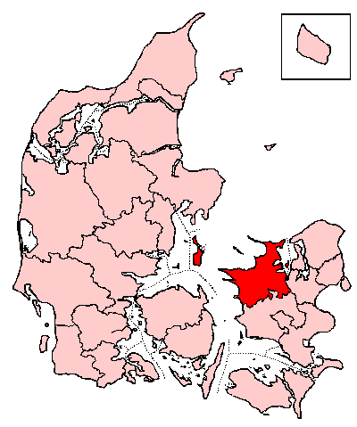 Map of Holbæk County 1793-1970